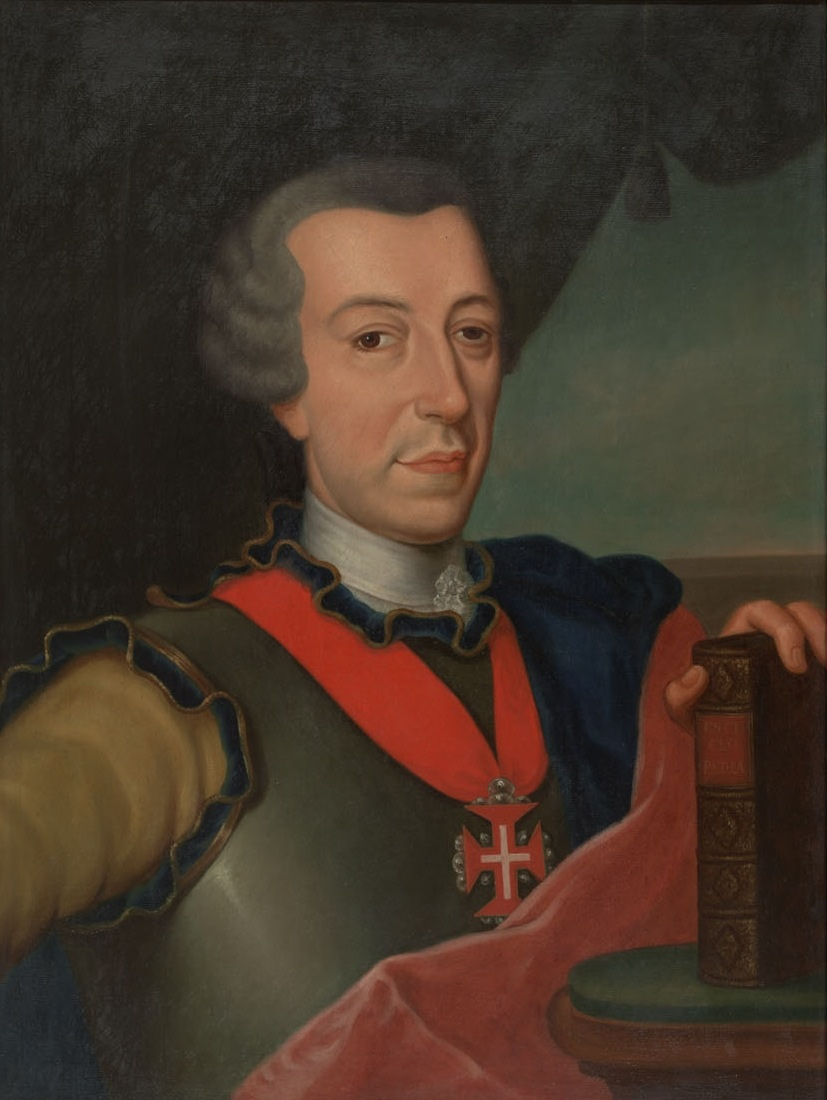 Na BNP